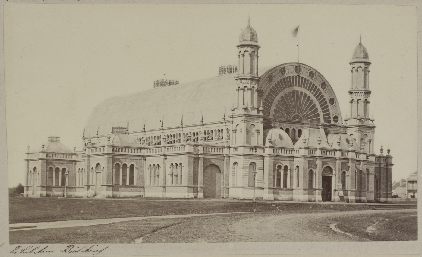 Note: The original photograph was taken with a glass plate camera; the Sinar AG Sinarback 54 FW, Sinar p3 / f3 was used for the digitisation Format: Photograph Find more detailed information about this photographic collection: .au/item/itemDetailPaged.aspx?itemID=836375 Search for more great images in the State Library's collections: .au/search/SimpleSearch.aspx From the collection of the State Library of New South Wales